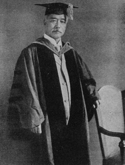 Naibu Kanda, LL.D., 1920.